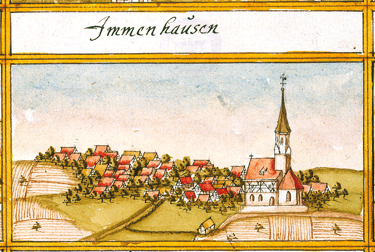 View of Immenhausen, Kusterdingen, from the forest register books created by Andreas Kieser